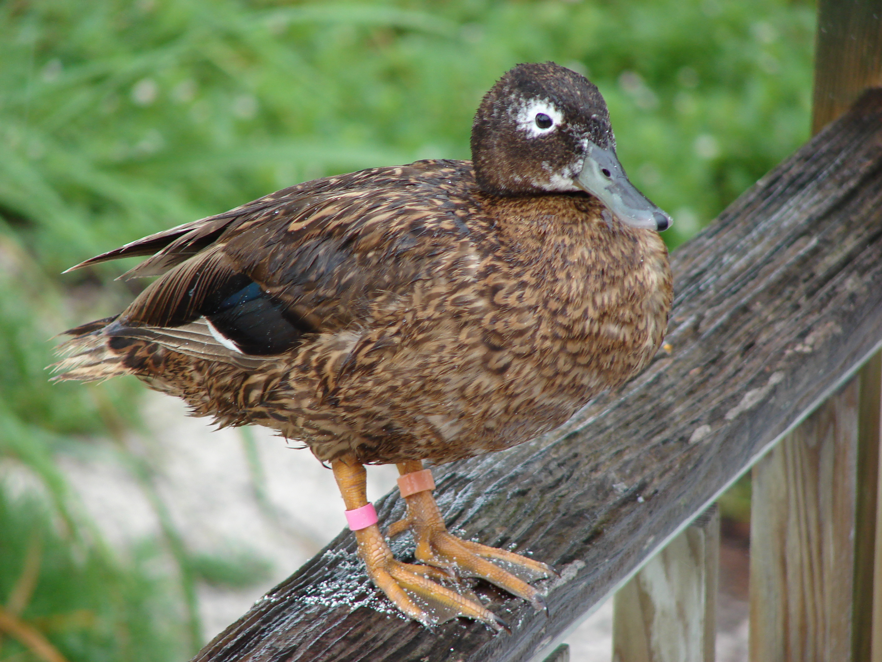 Boerhavia repens (habit with Laysan duck in rain). Location: Midway Atoll, Clipper House Sand Island